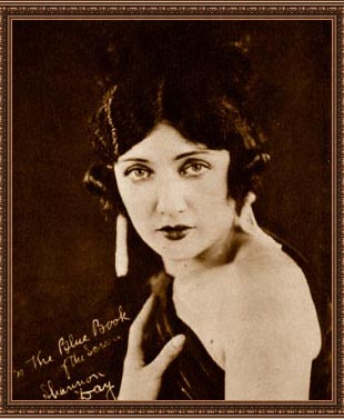 Publicity photo of Shannon Day [1] from The Blue Book of the Screen by Ruth Wing, editor